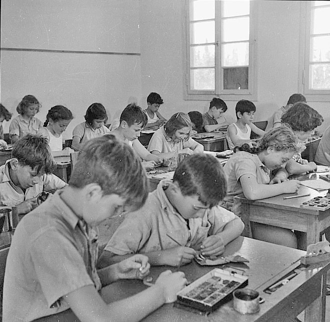 Givat Brenner Children Education, Education in Israel